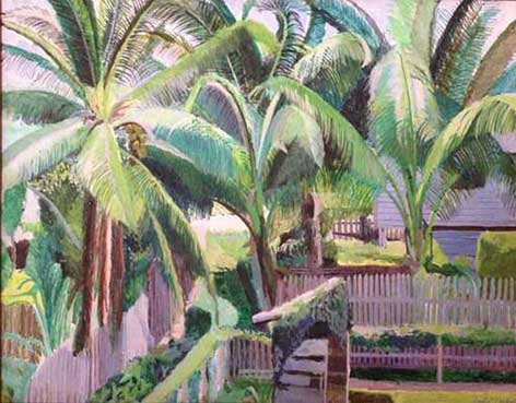 "Back Yards, Public Road, Kitty" by Leila Locke. Acrylic on board, 100 x 170cm, painted by Leila Locke c.1973, Guyana. Painting destroyed by fire 2017